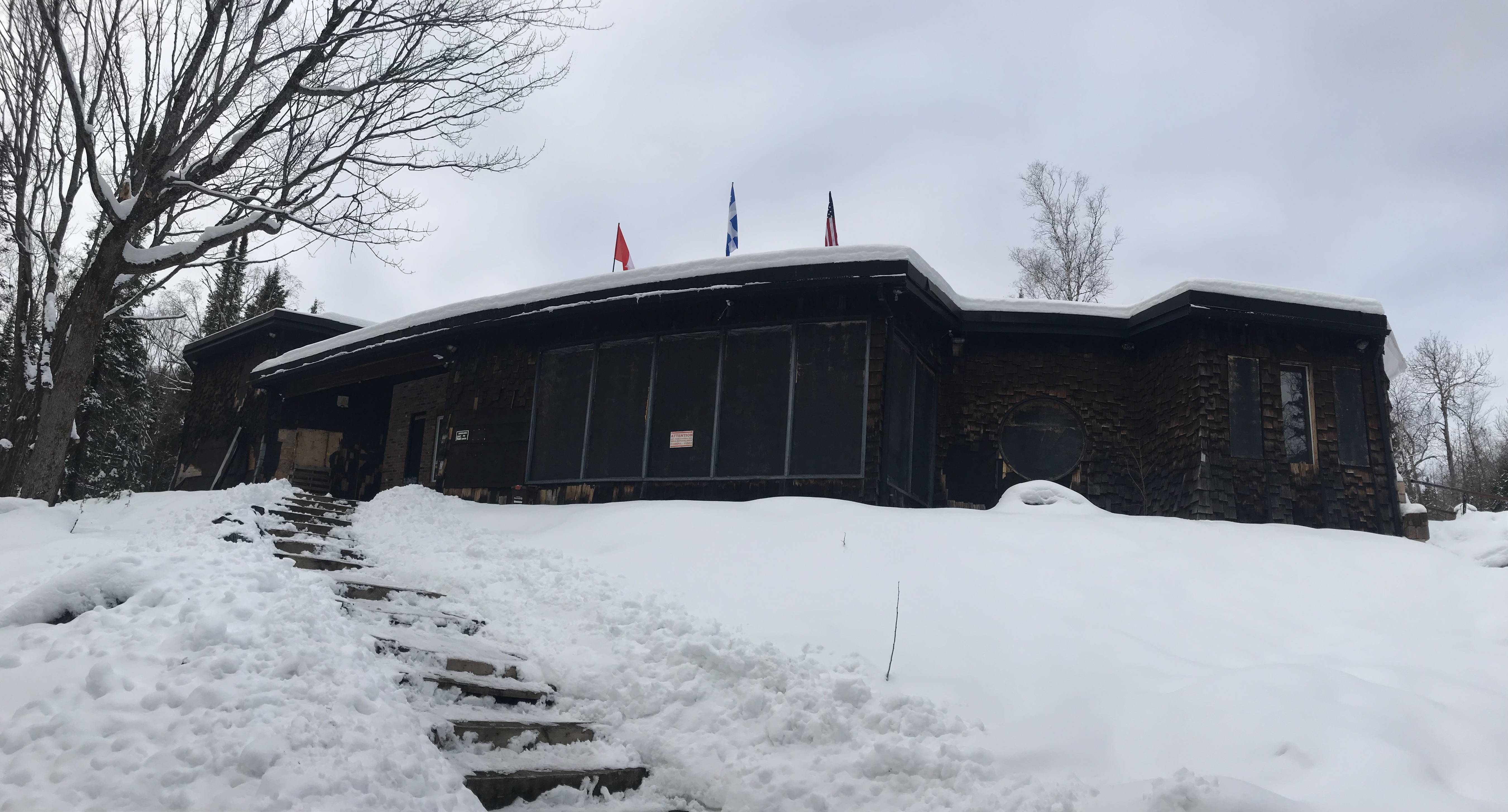 Outside view of Le Studio, in Morin Heights, Québec, Canada, after the fire who destroyed half of the building